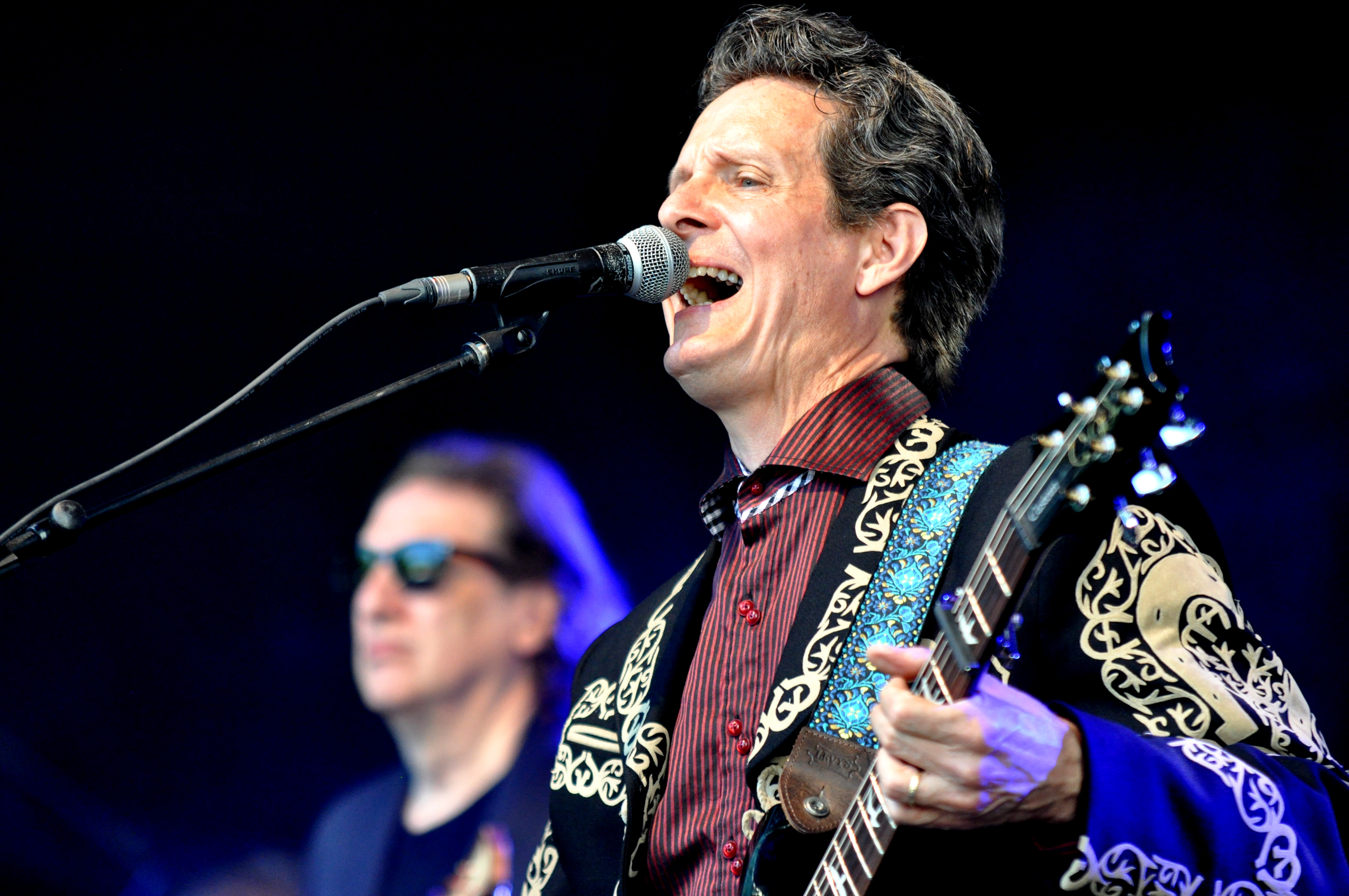 The Brandos (USA) appearance at the 2017 blacksheep festival at Bonfeld castle, Bad Rappenau, Baden-Wuerttemberg, Germany Festivalsommer This photo was created with the support of donations to Wikimedia Deutschland in the context of the CPB project "Festival Summer".